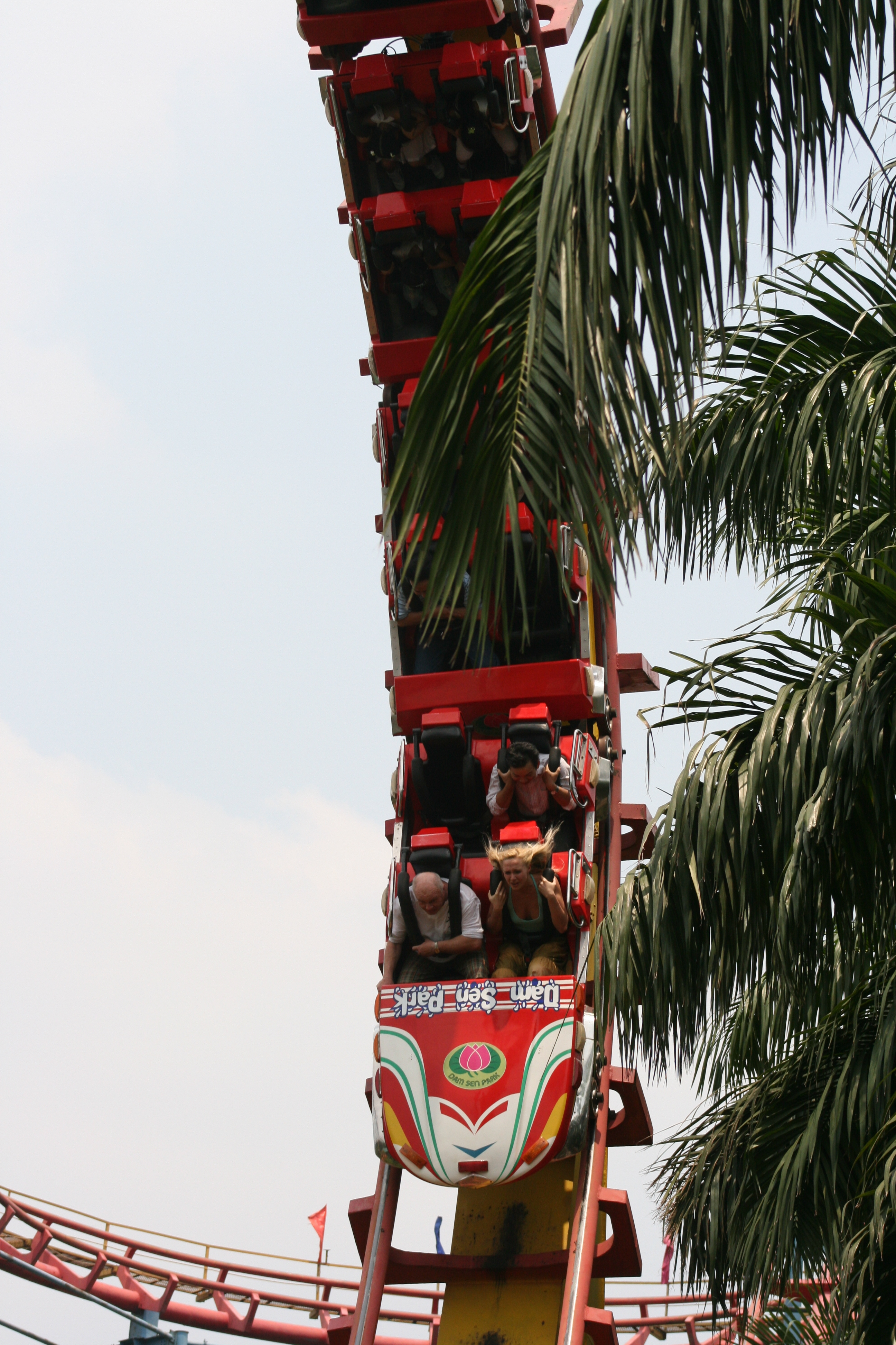 Roller Coaster at Damsen Park, Hochiminh City